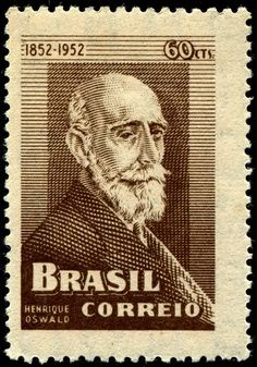 Henrique Oswald (1852-1931) Brazilian composer and pianist.